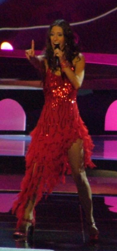 Xandee during a rehearsal at the Eurovision Song Contest 2004 in Istanbul